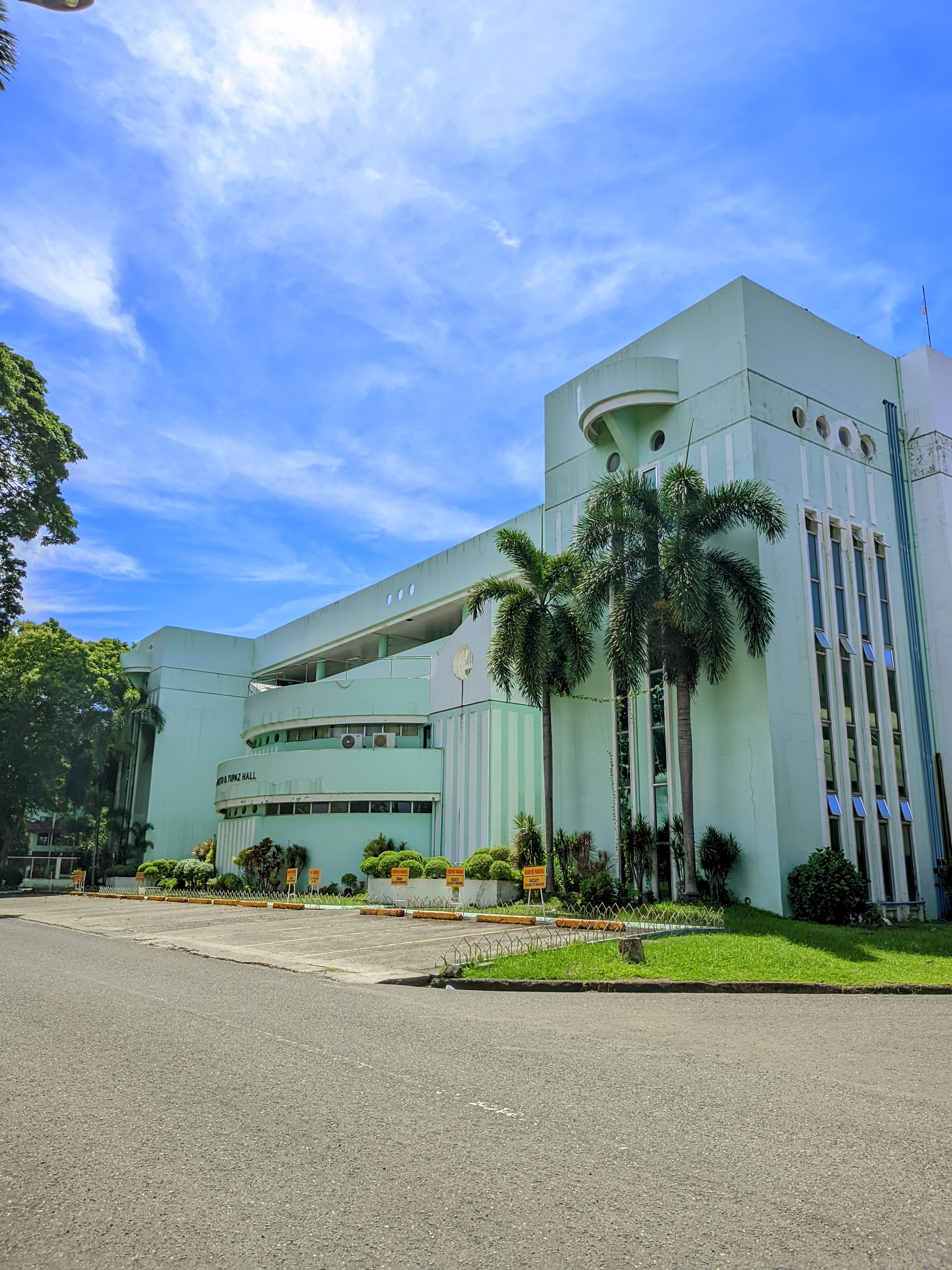 Loreto D. Tupaz Hall houses the Central Philippine University College of Nursing, the first nursing school in the Philippines established by Joseph Andrew Hall in 1906 as Union Mission Hospital Training School for Nurses. The school for nurses operation was transferred later after the post World War II to Central Philippine University but maintains Iloilo Mission Hospital (formerly Union Mission Hospital) as its based hospital for clinical training of nurses.